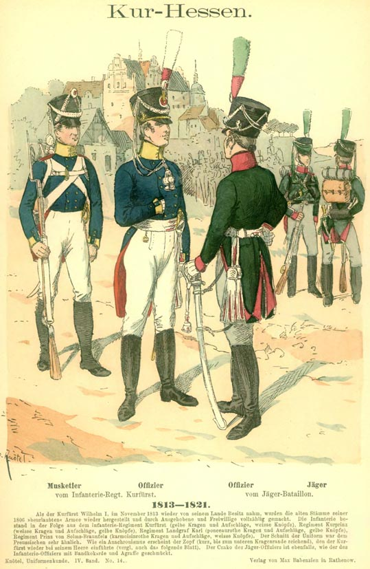 Hessen-Kassel. Infanterie. 1812-1820